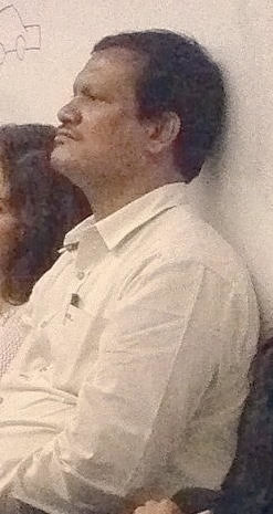 Dr.Nilayini attending a social campaign with Arunachalam Muruganantham in California